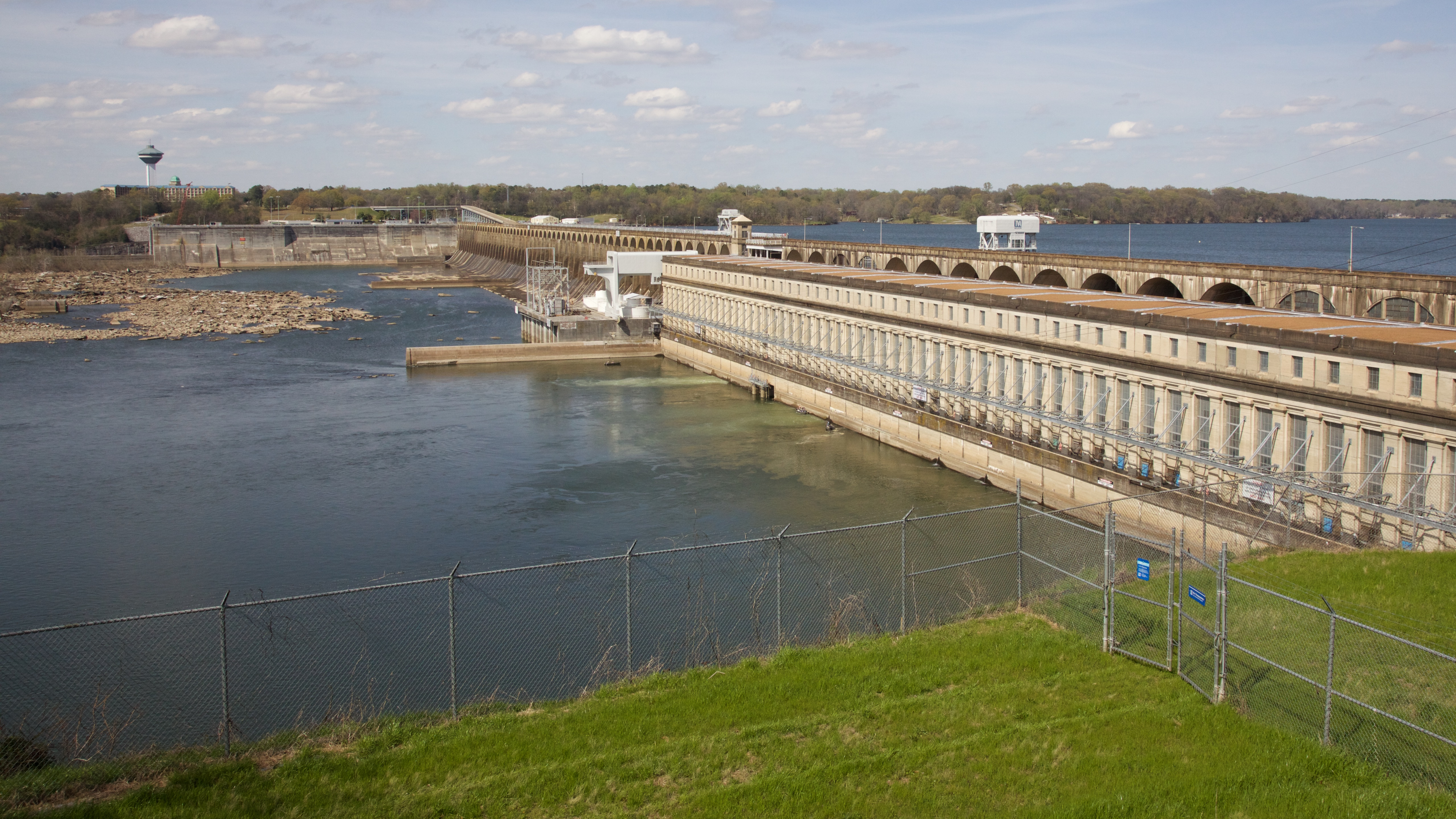 Wilson Dam